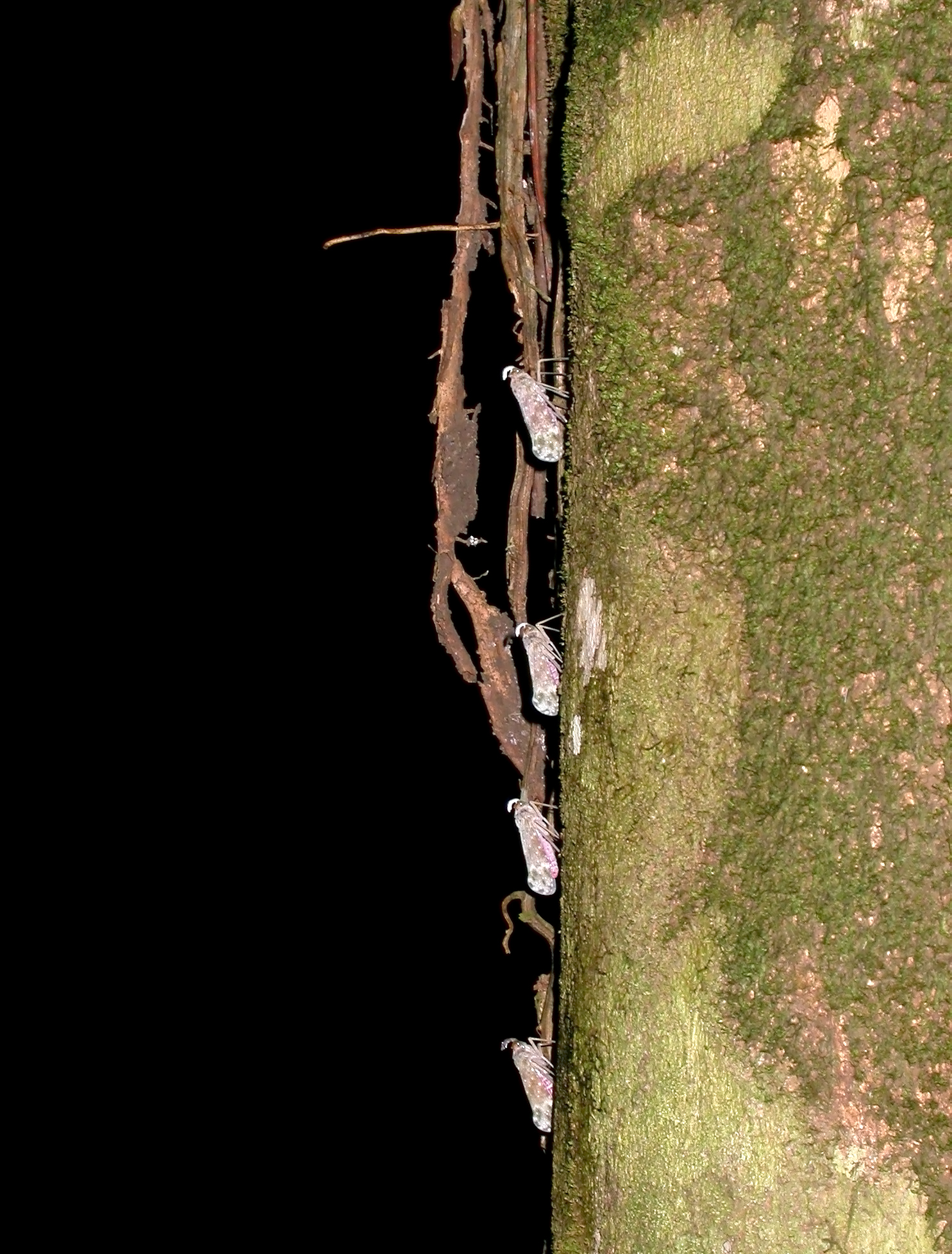 A photograph of 4 individuals of Enchophora sanguinea feeding on a tree.